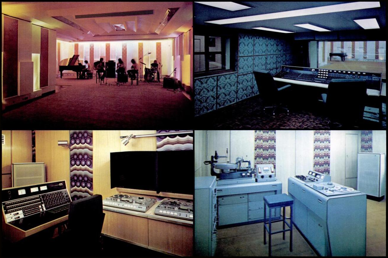 Trade ad of Apple Studios.To better adapt it to his respective Wikipedia article, the ad was cropped and cleaned in a graphics editing program. The original can be viewed at the source below.